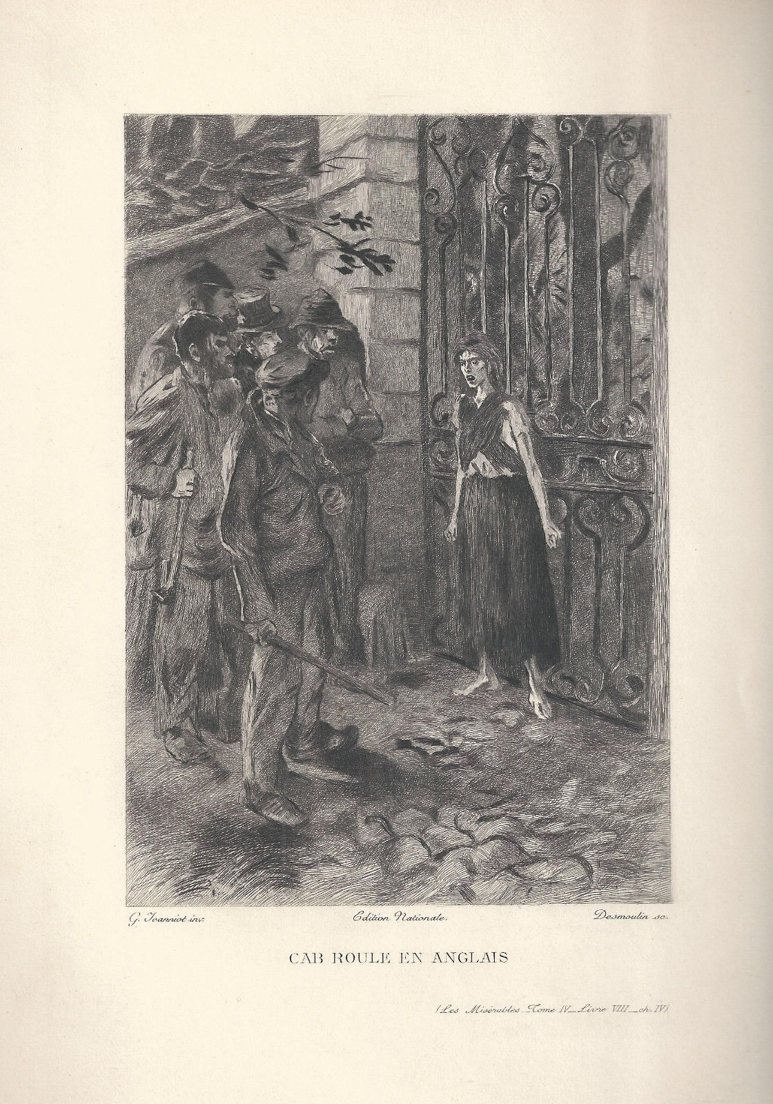 illustration to Les Misérables, 1890.